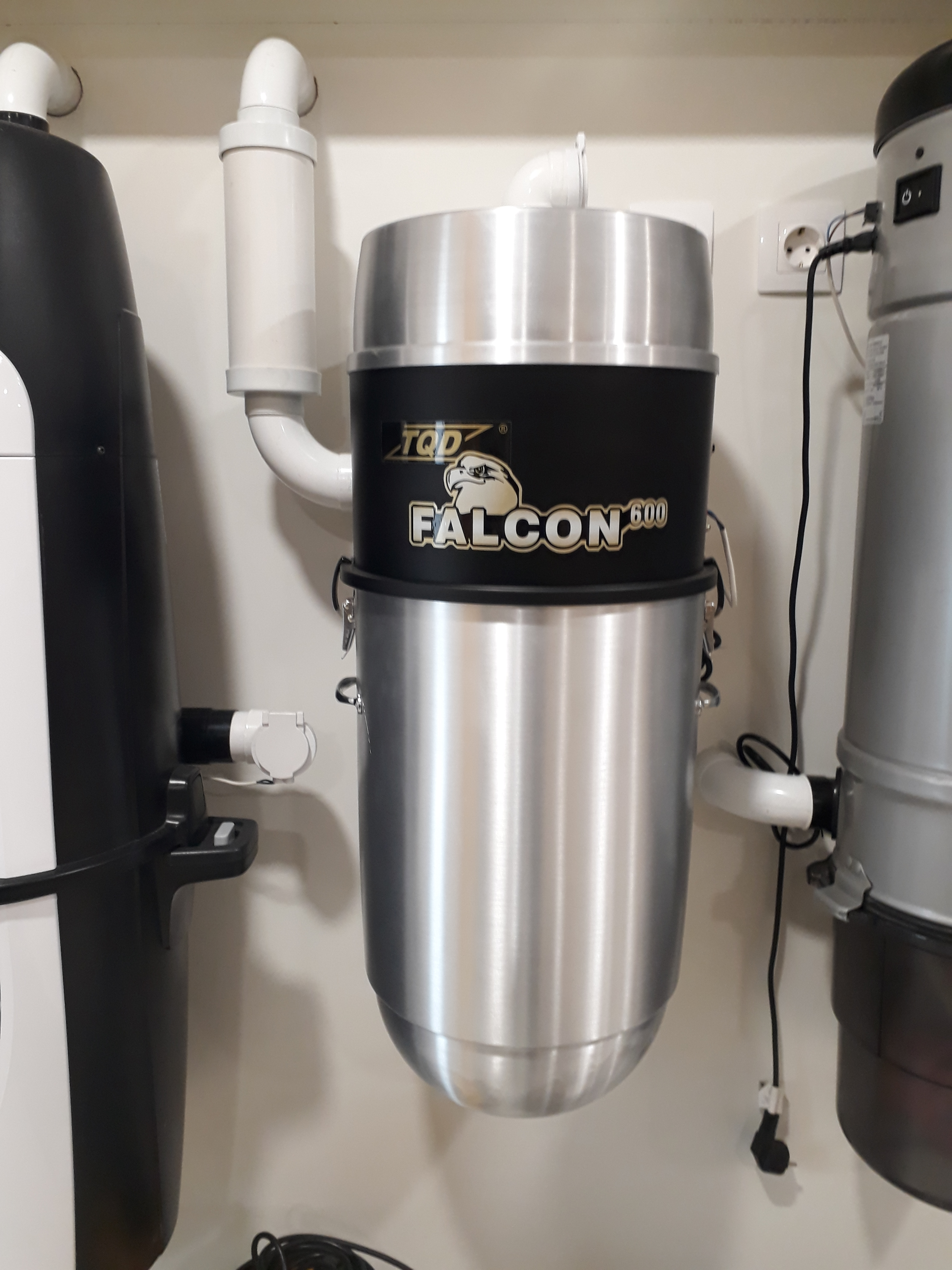 Polish central vacuum cleaner